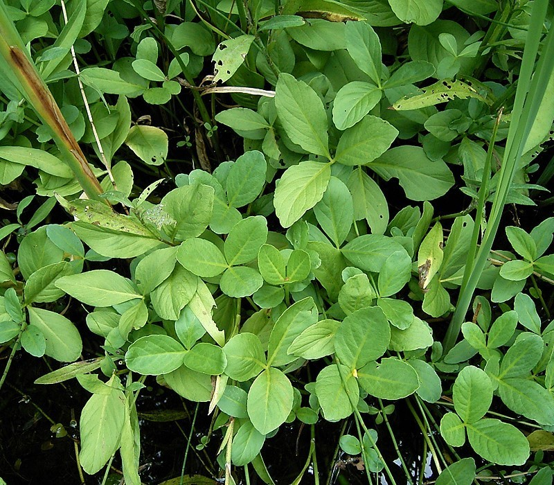 Menyanthes trifoliata